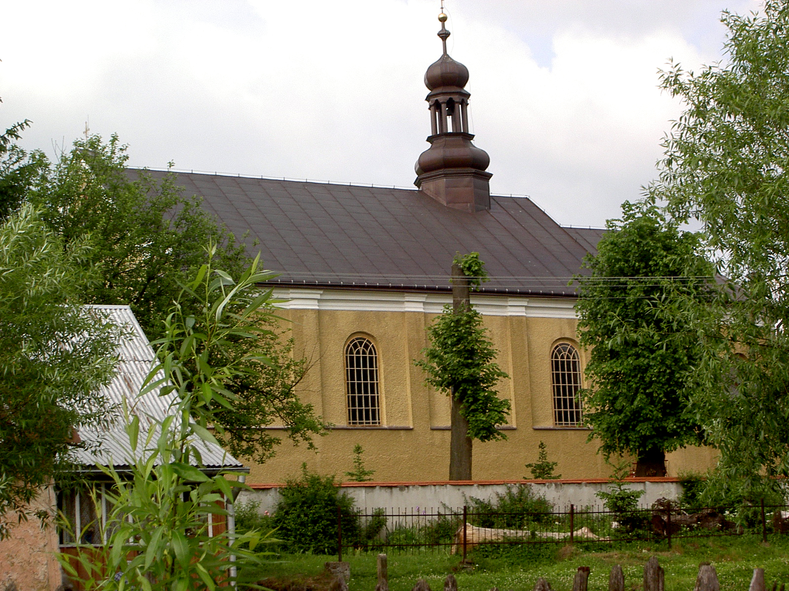 Saint Thomas church in Rybotycze, Poland